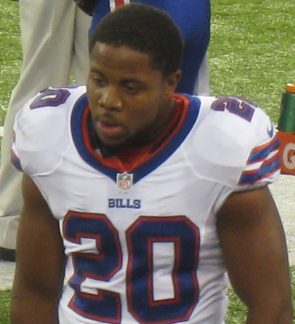 Tashard Choice, Buffalo Bills Running Back. Photo taken September 22, 2013, Met Life Stadium